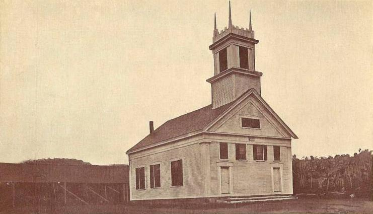 Union Church, East Westmoreland, New Hampshire. It was built in 1853.